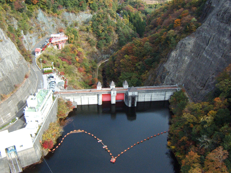 Ryujin Dam. Hitachiōta, Ibaraki, Japan.